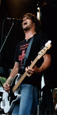 Jay Bentley with Bad Religion on the Warped Tour 2004